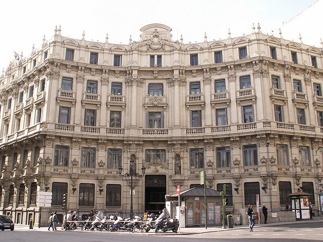 Former Banco Hispano Americano (and now Santander) building at the Plaza de Canalejas (square) in Madrid (Spain). Projected in 1902 by Eduardo de Adaro Magro and built from 1902 to 1905.